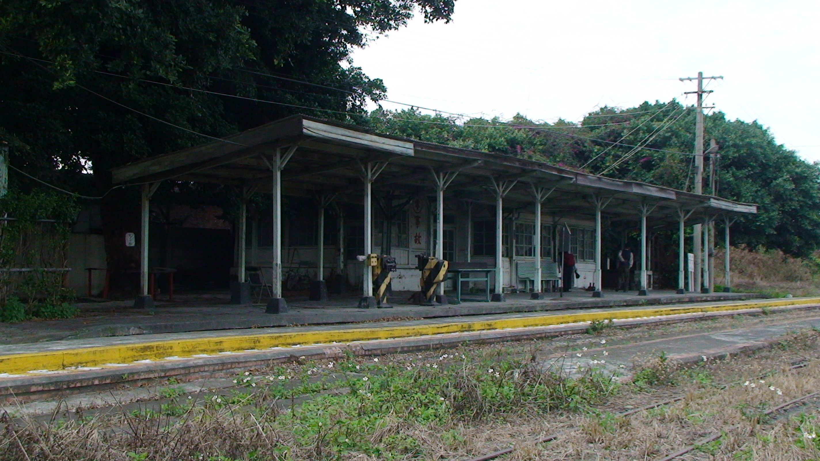 Taiwan Sugar Railways Sihu Station